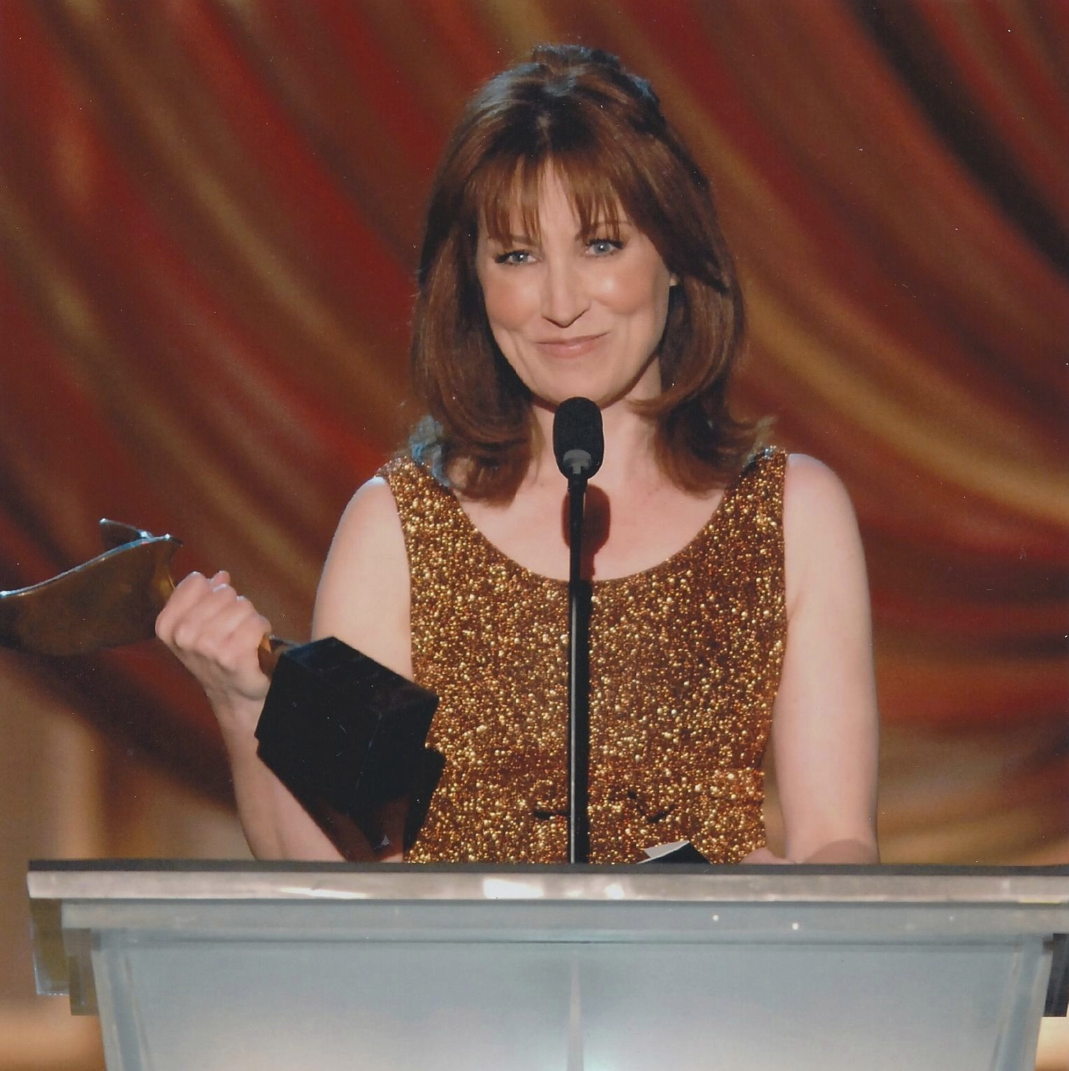 2007 WGA Awards